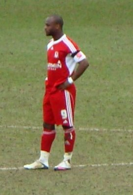 Leroy Lita playing for Middlesbrough.